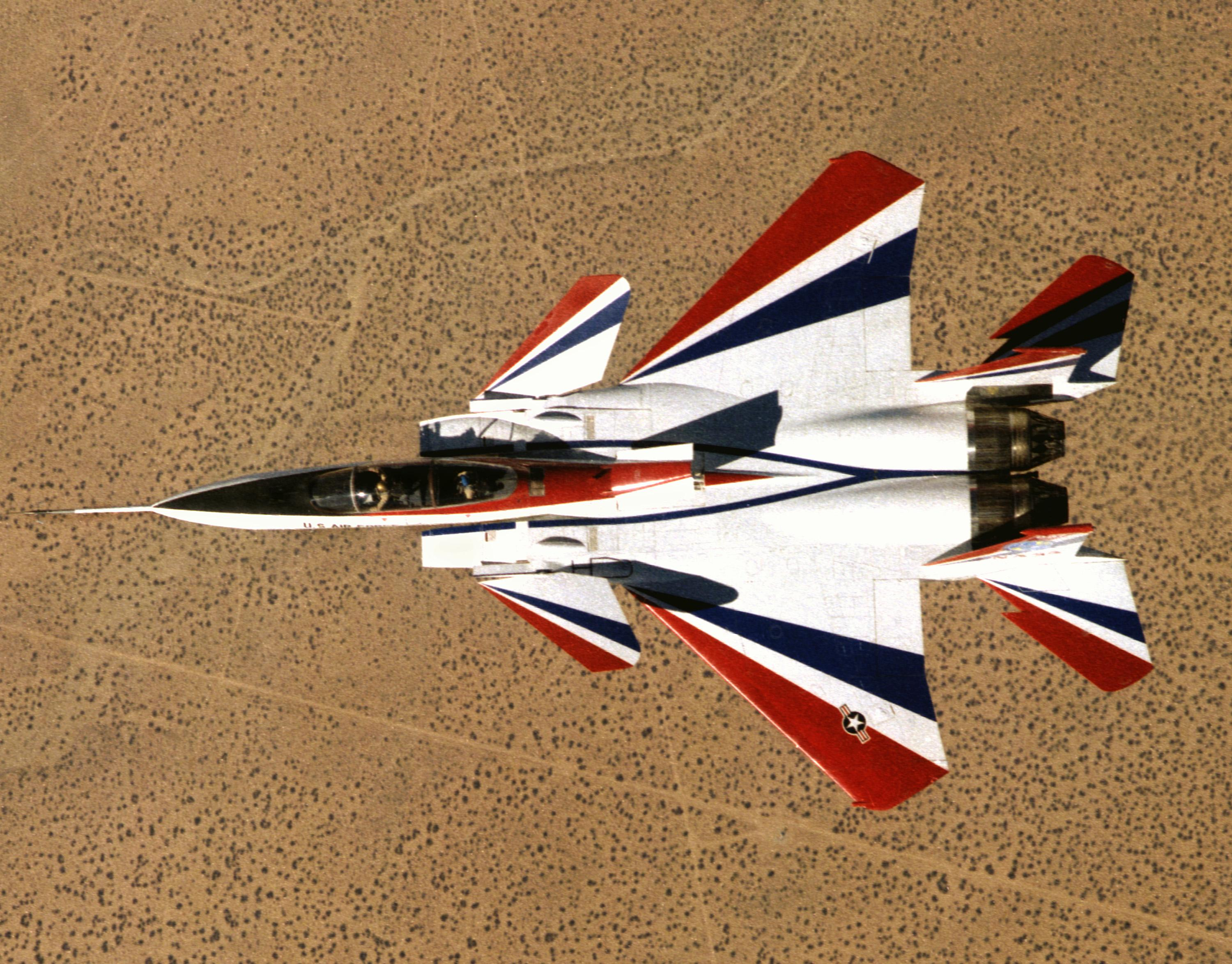 Striking Silhouette: F-15B used by NASA for programe ACTIVE, Advanced Controls Technology for Integrated Aircraft. Dryden Flight Research Center.